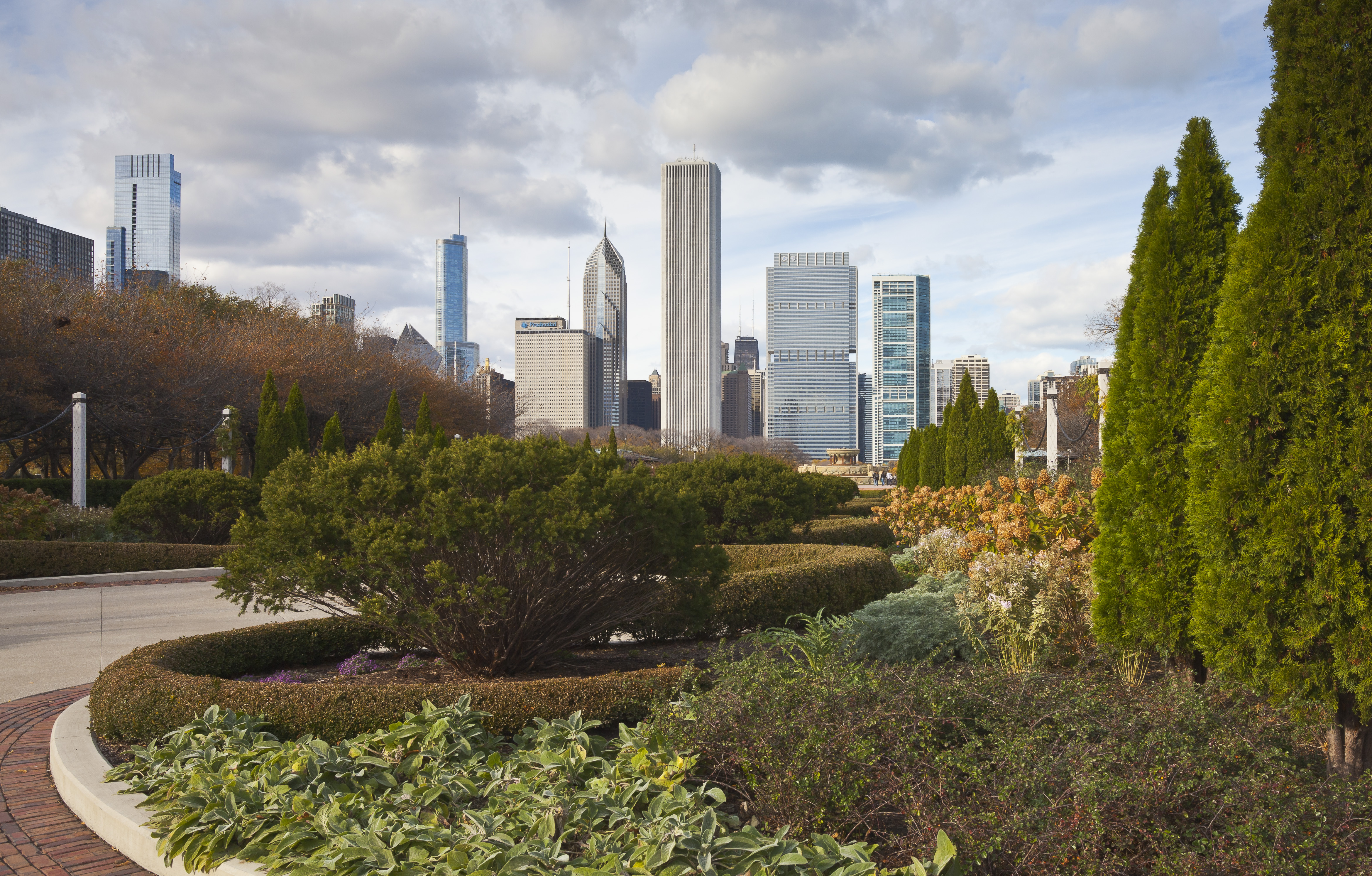 Grant Park, Chicago, Illinois, USA Facing North and taken from the Tiffany Celebration Garden south of Buckingham Fountain, which is visible in the center-right.